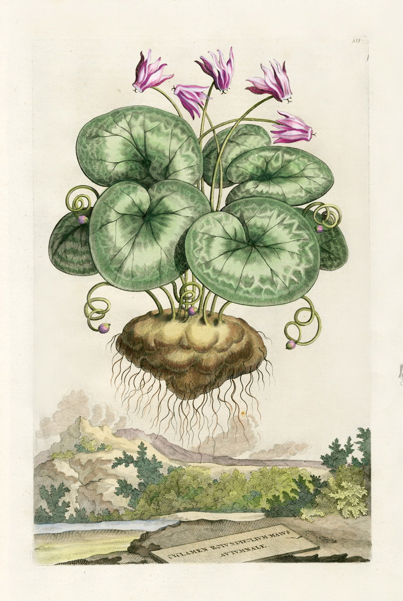 'Cyclamen Rotundifolium Maivs Autumnale' ('more autumnal') - from Flore Carneo (succulent/fleshy flowers) - Cyclamen rotundifolium St.-Lag. is a synonym of Cyclamen purpurascens Mill. M